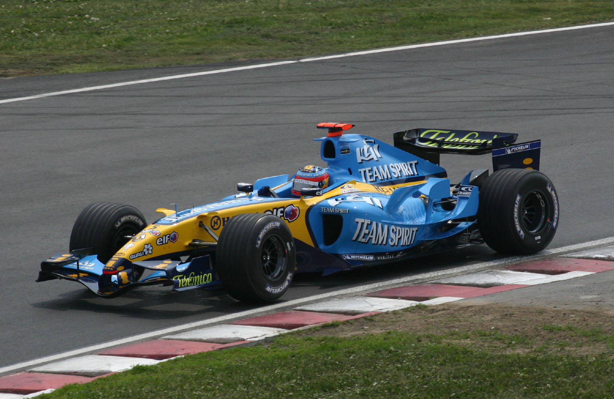 Fernando Alonso driving for Renault F1 at the 2005 Canadian Grand Prix.